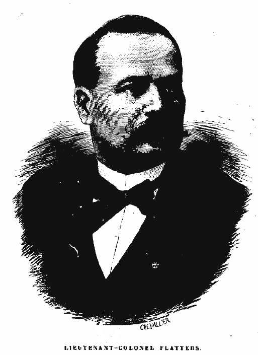 Picture contained in the book Henri Brosselard, Les Deux Missions Flatters au pays des Touareg Azdjer et Hoggar, Parigi, 1889